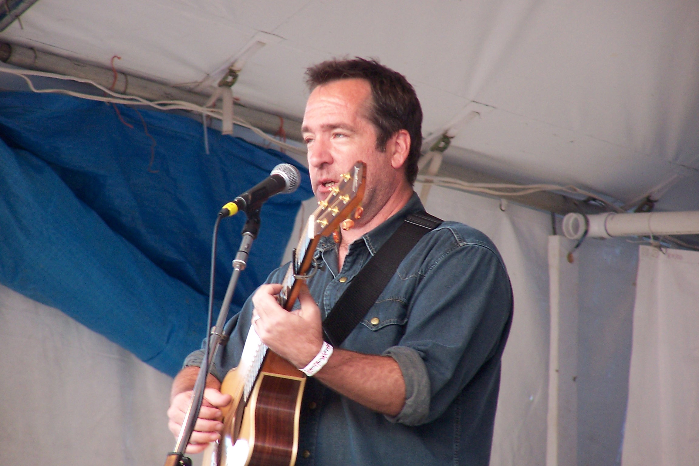 Photo by Skip Billian Public Domain